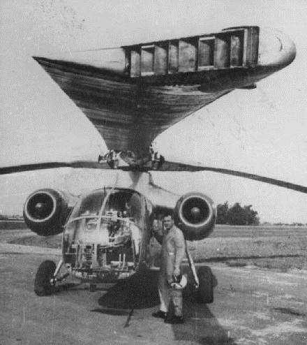 Hughes XV-9A Roter tip